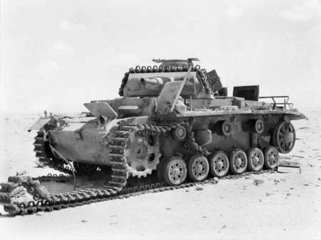 A knocked out German Panzer III in the Western Desert.